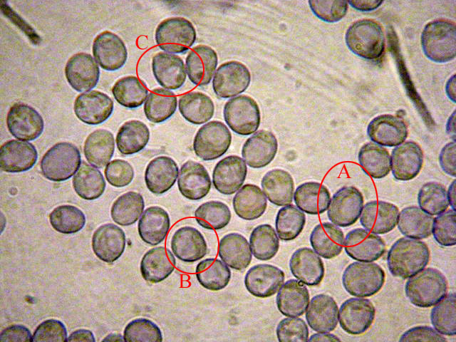 The spores of the mushroom Amanita abrupta Peck. The spore in red circle A has a Q value (length/width) of 1.23 (broadly ellipsoid); B=1.07 (subglobose), and C=1.34 (ellipsoid).